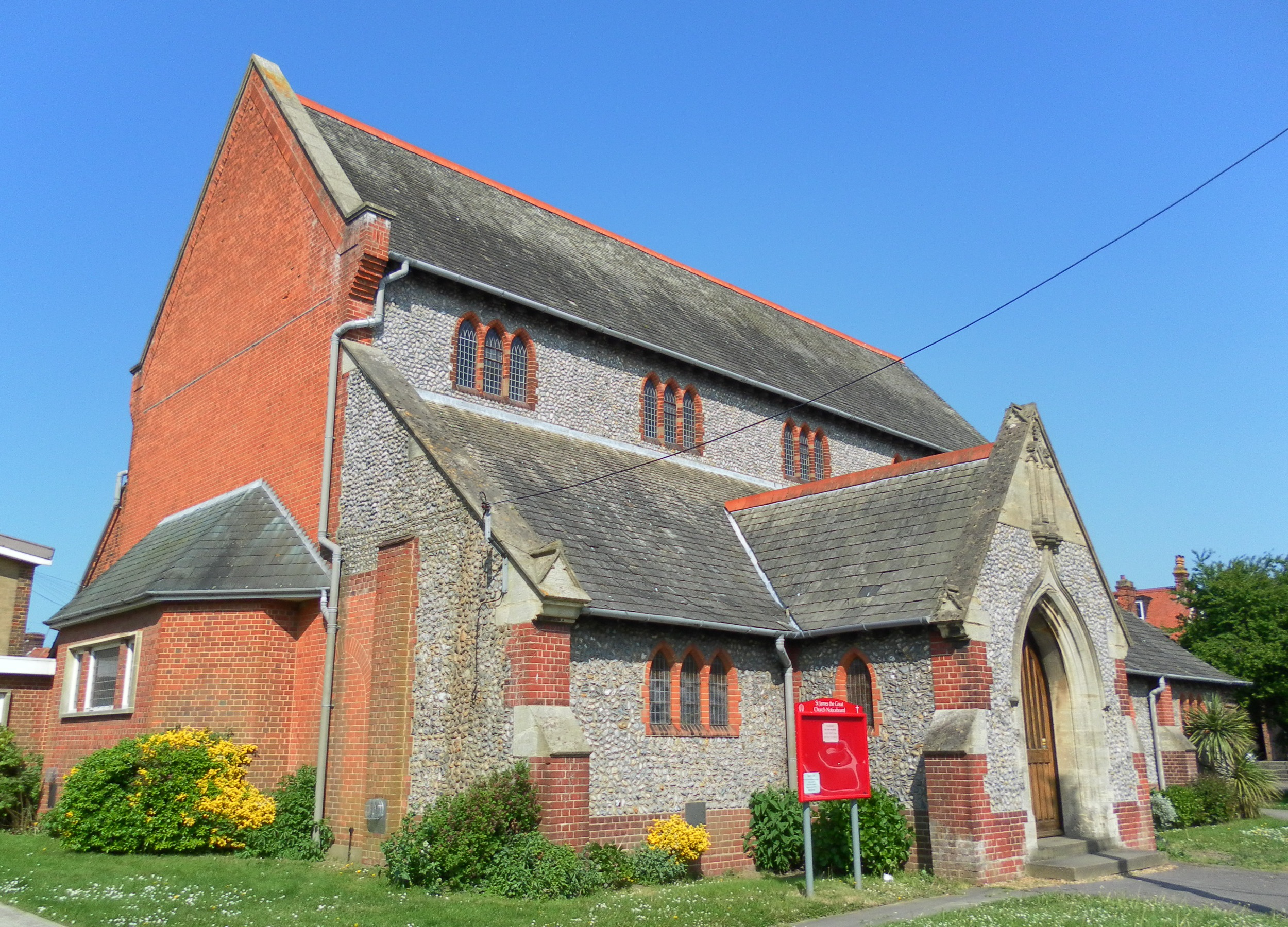 Parish church of St James the Great, Littlehampton, West Sussex, England, seen from the southwest